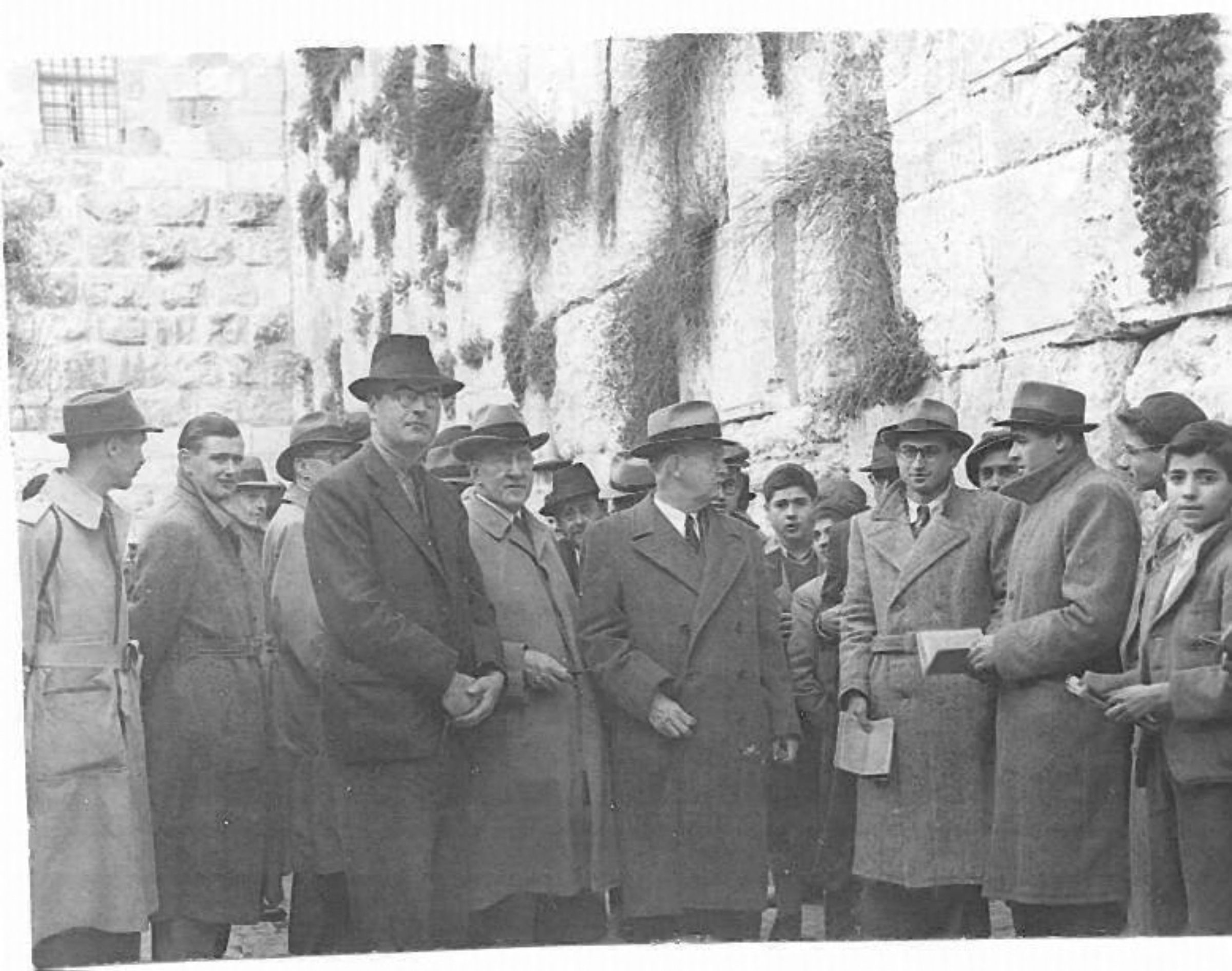 Members of the Anglo-American Committee of Inquiry standing next to the Western Wall